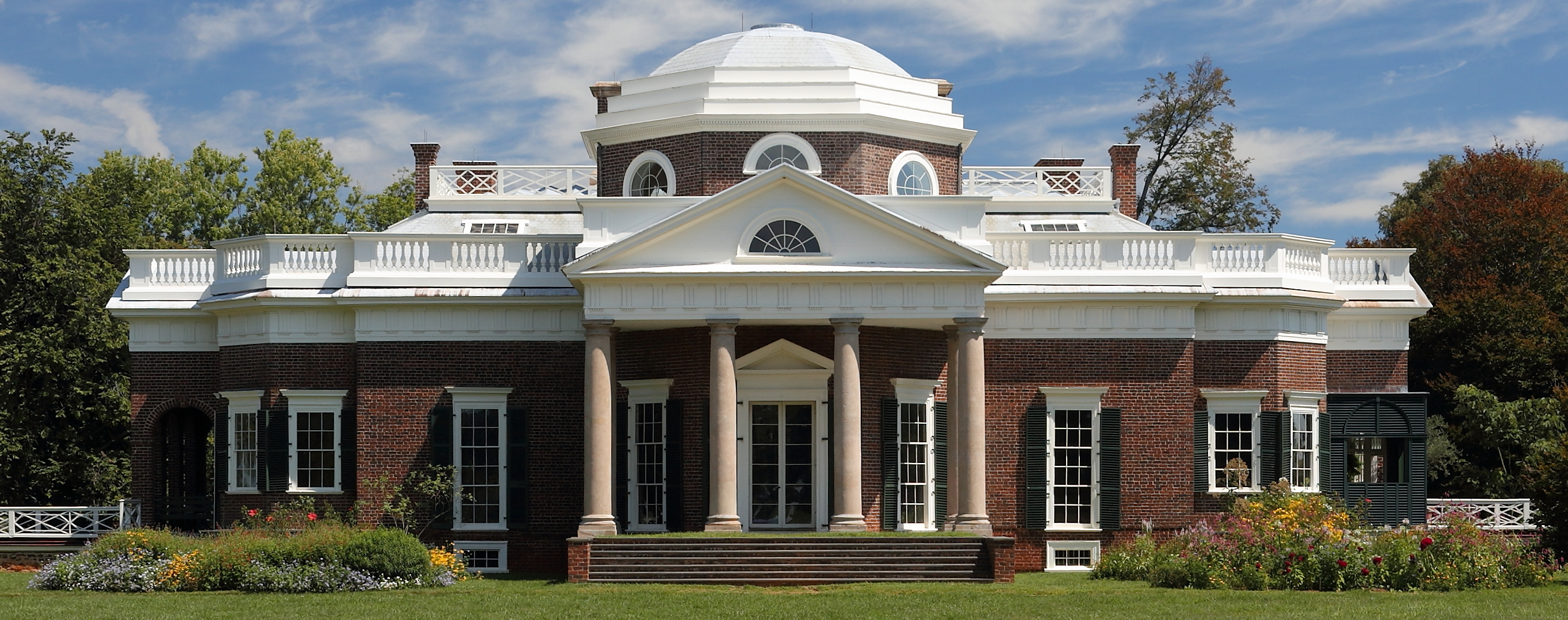 Thomas Jefferson's Monticello, part of UNESCO World Heritage Site Ref. Number 442